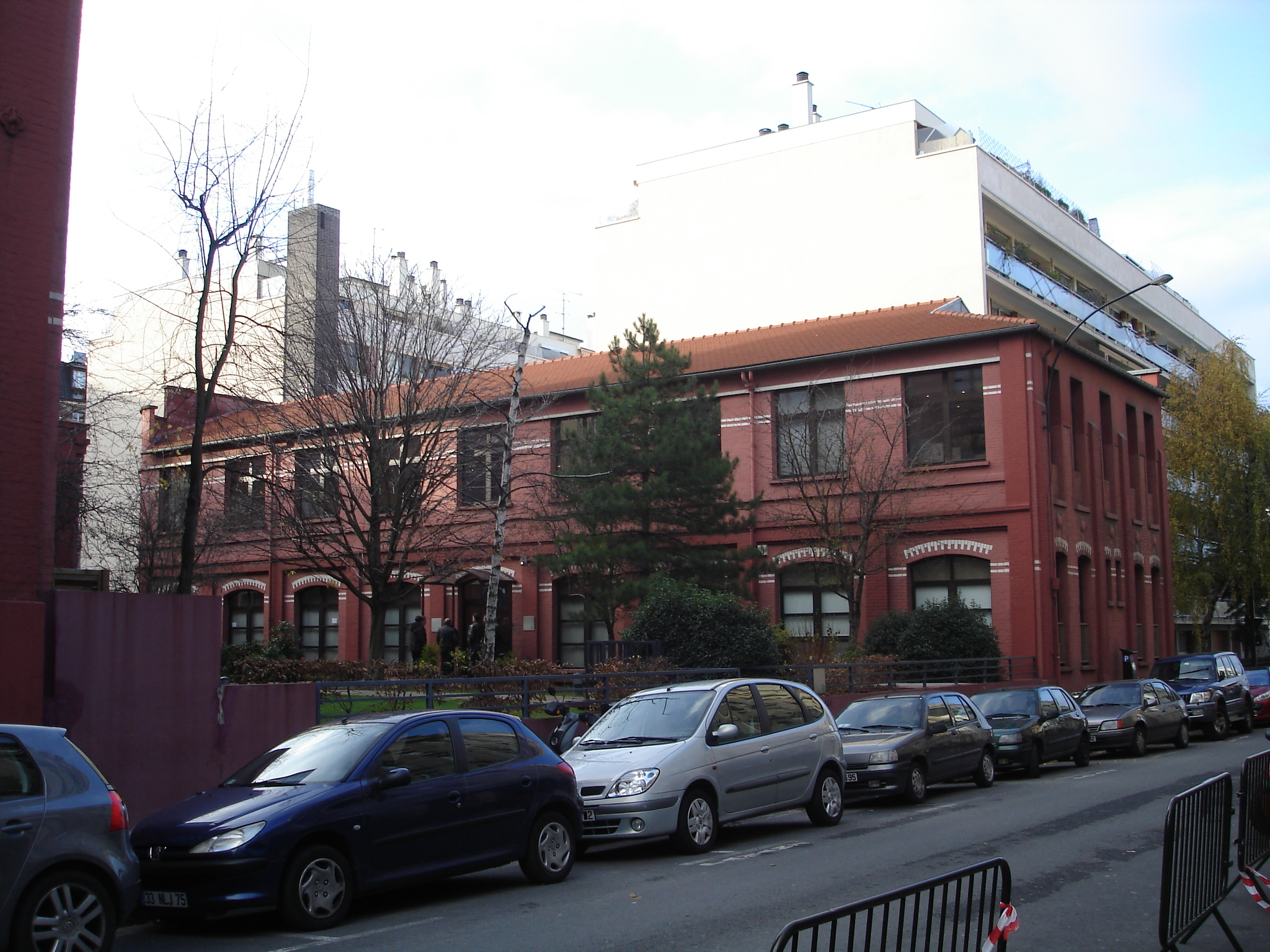 Indusrial building, built in 1907; 83 rue Baudin in Levallois-Perret, suburb of Paris. First used by Delage, the old car manufacturer, then by the chocolate manufacturer François Meunier, then by the watch and avionic control electronics maufacturer Jaeger. Presently, offices.